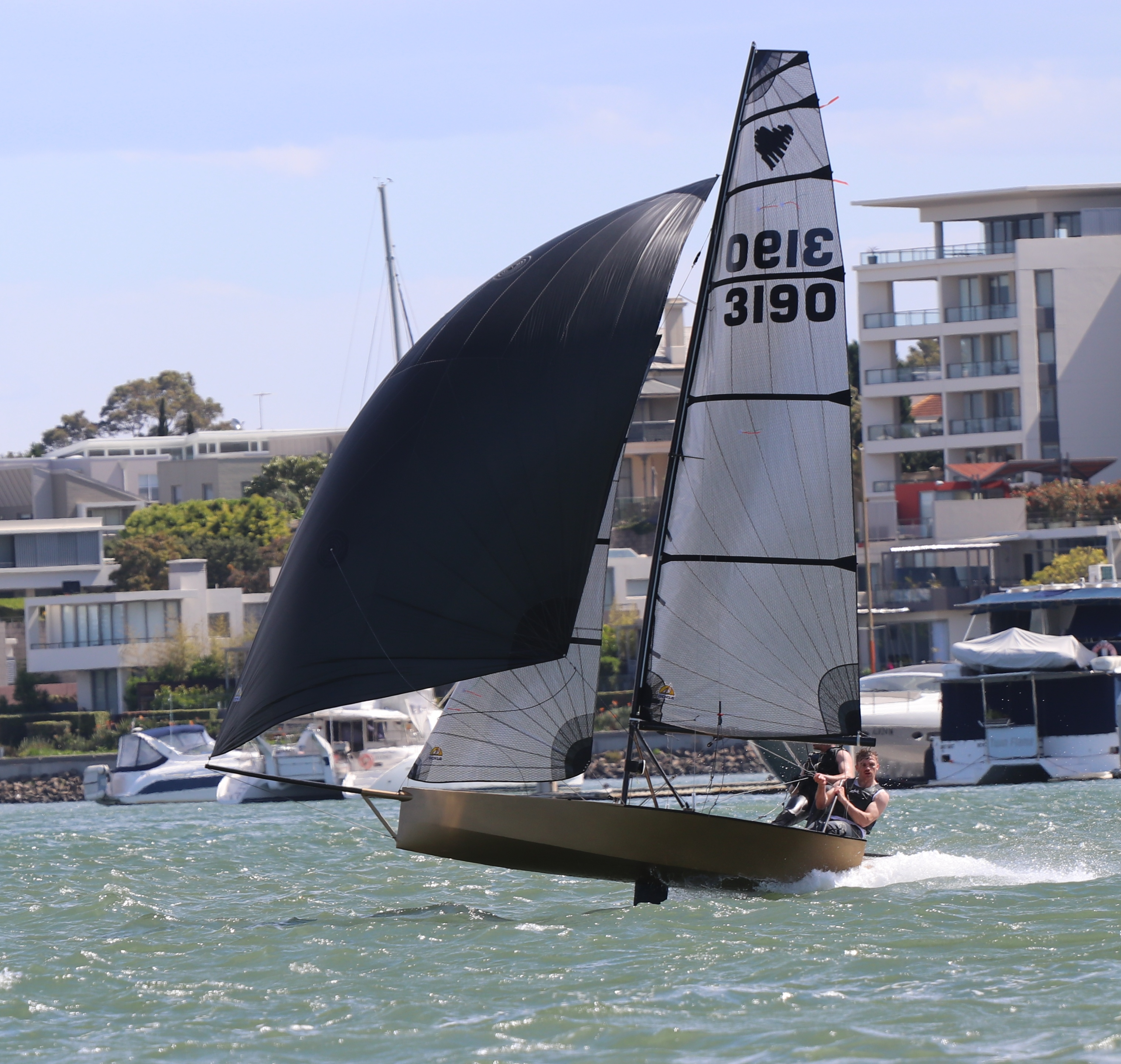 Cherub class sailing boat